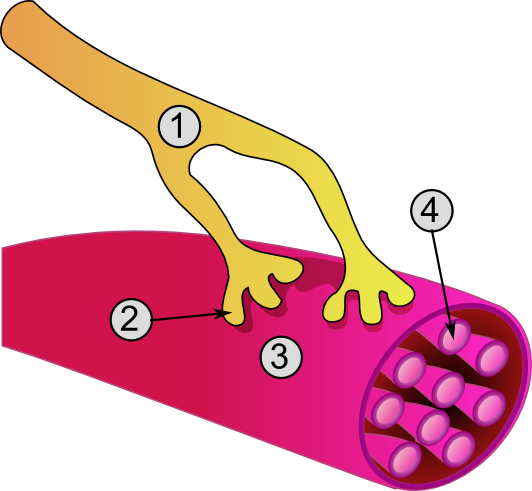 Neuromuscular junction (global view) # Axon # Synaptical junction # Muscle fiber # Myofibrils Drawn by Utilisateur:Dake with Inkscape 0.42.